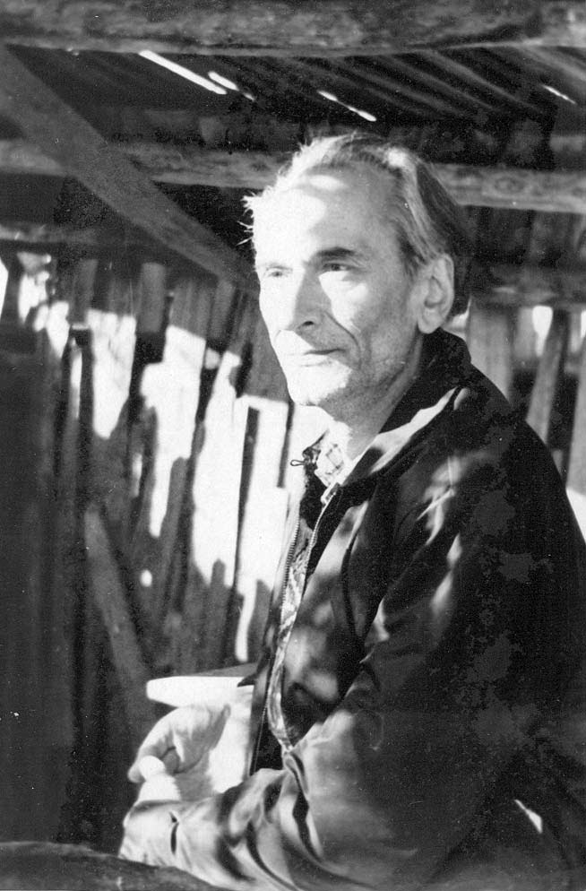 Daniil Andreev out of prison.